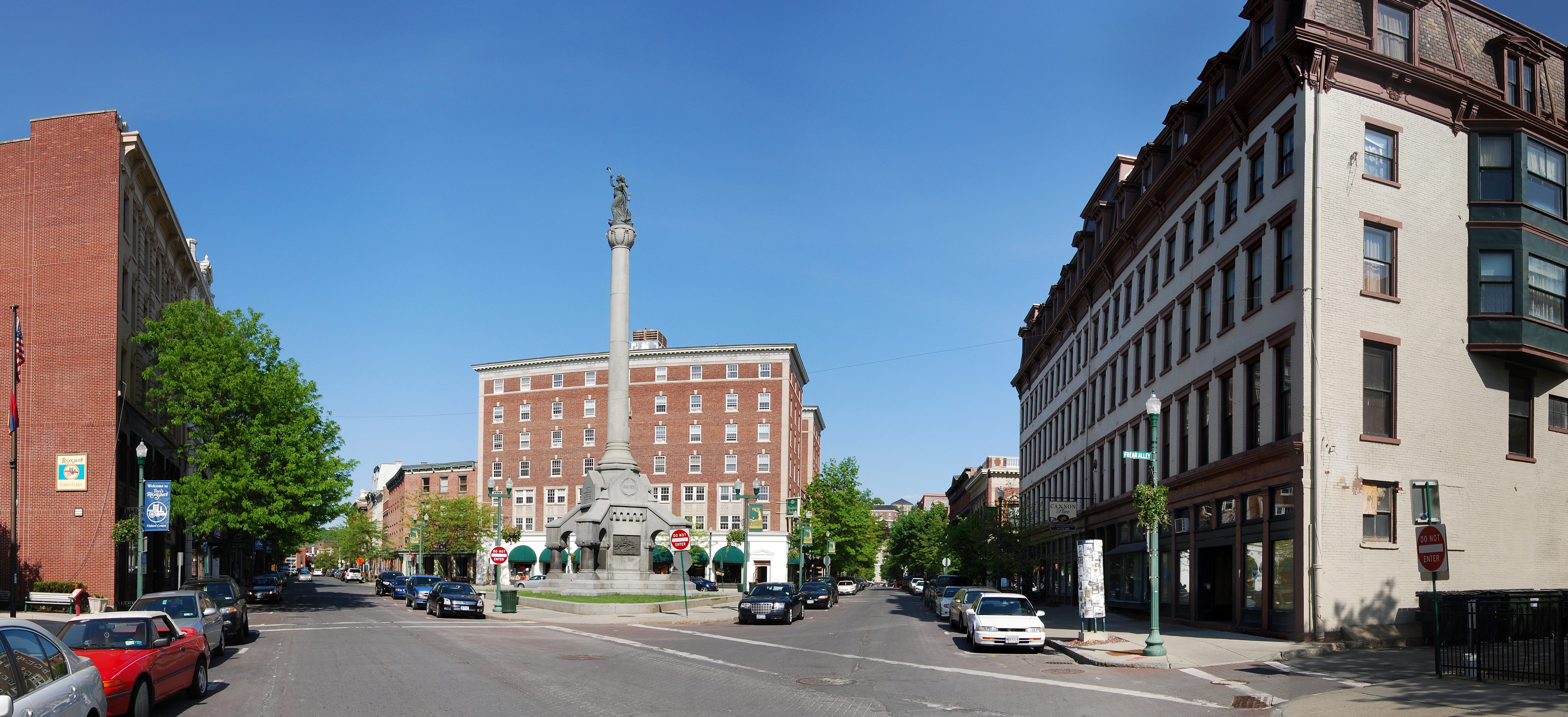 Monument Square, part of Central Troy Historic District, in Troy, New York, United States. Photo taken in front of Troy City Hall.